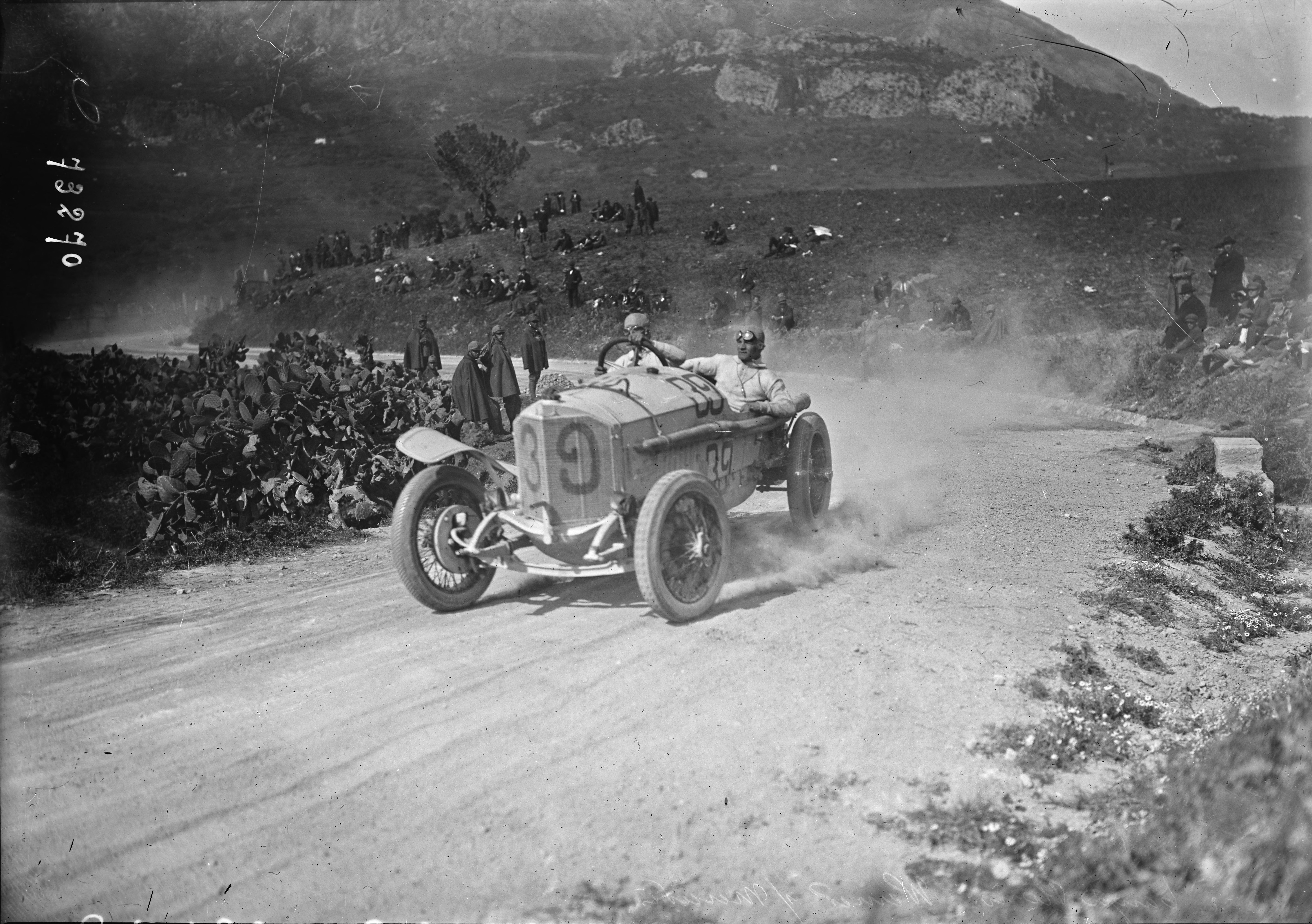 Christian Werner in his Mercedes at the 1922 Targa Florio.